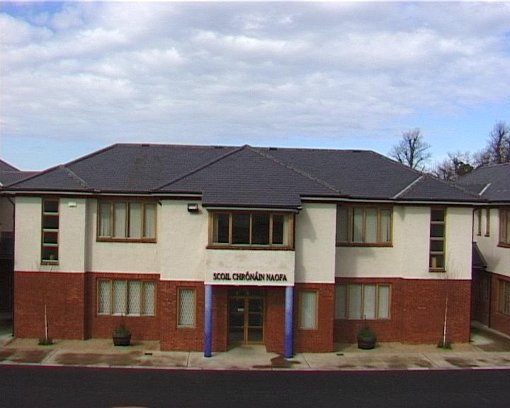 This picture was taken by me on 16th April 2004.